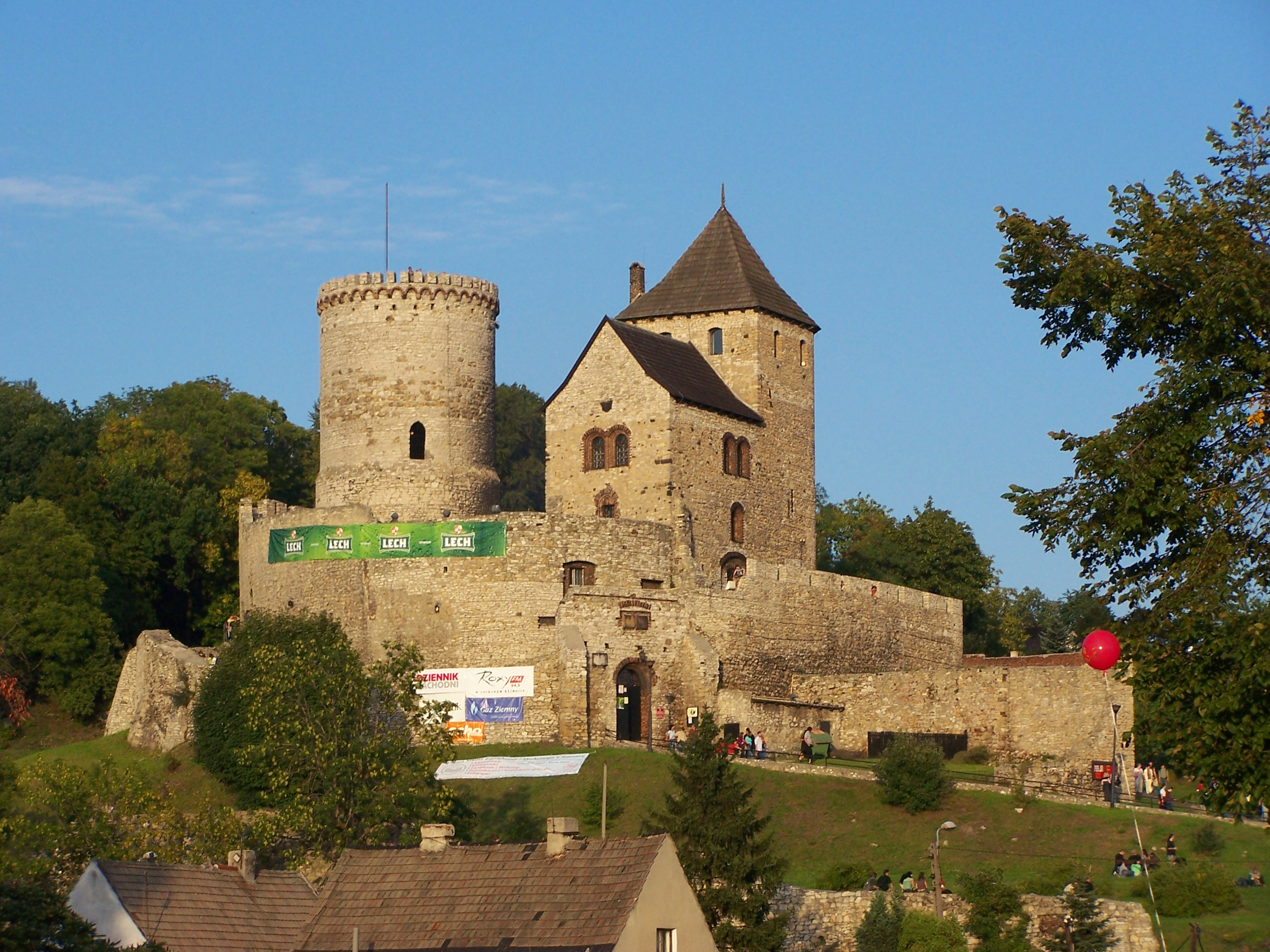 Castle in Będzin.